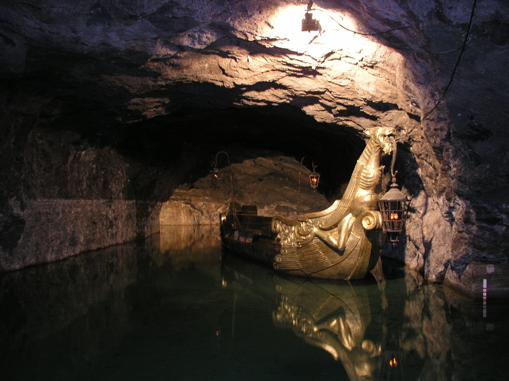 Film set of the Walt Disney Movie "The Three Musketeers" (1993 film)